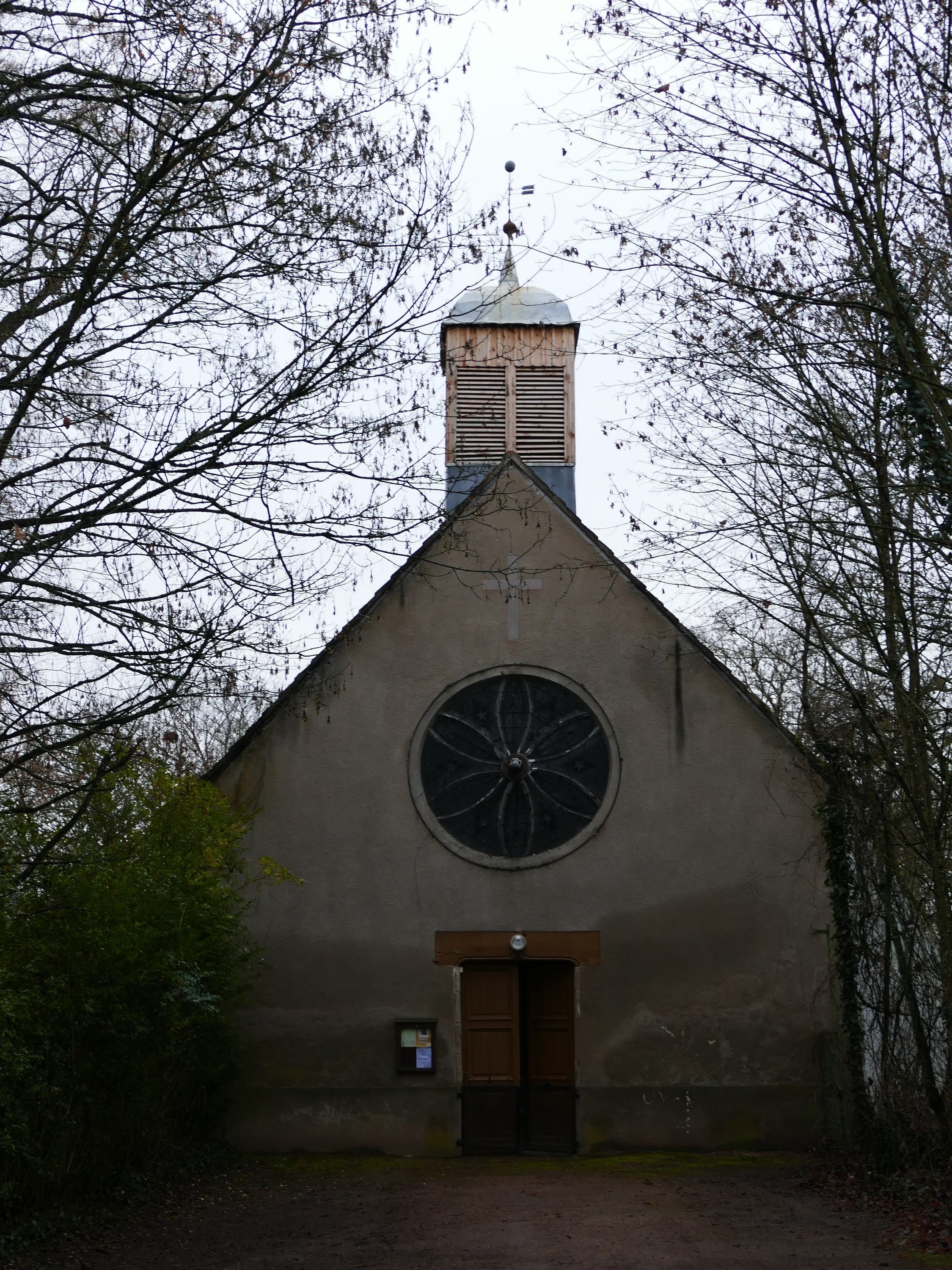 Chapelle des mines in Montcombroux-les-Mines (Allier, Auvergne, France).